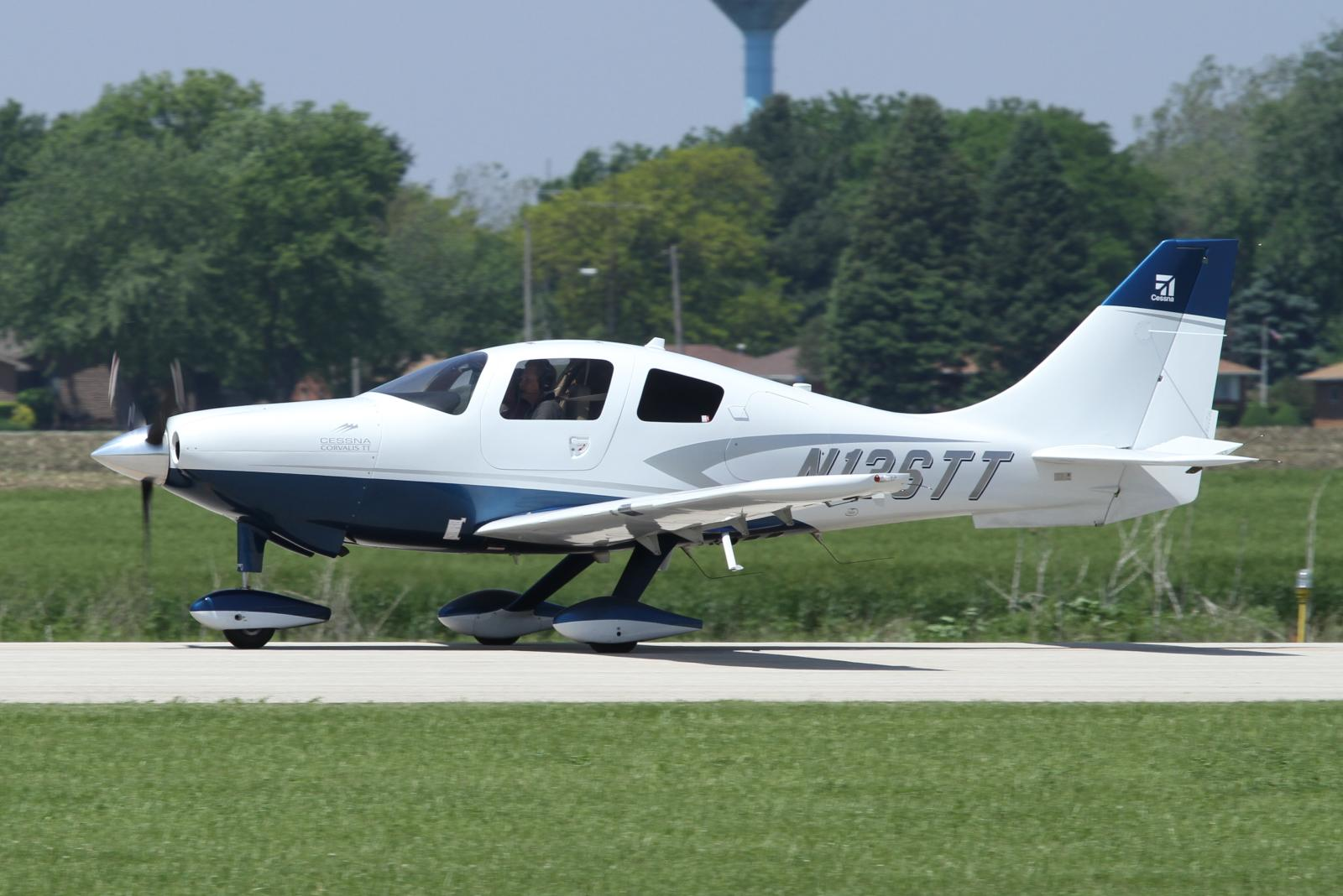 Cessna LC41-550FG C/N 411161